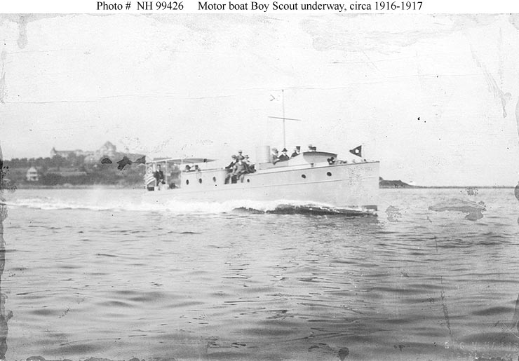 NH 99426: Boy Scout (American Motor Boat, 1916) Underway, circa 1916-1917. Photographed by George N. Harden, Rockland, Maine.